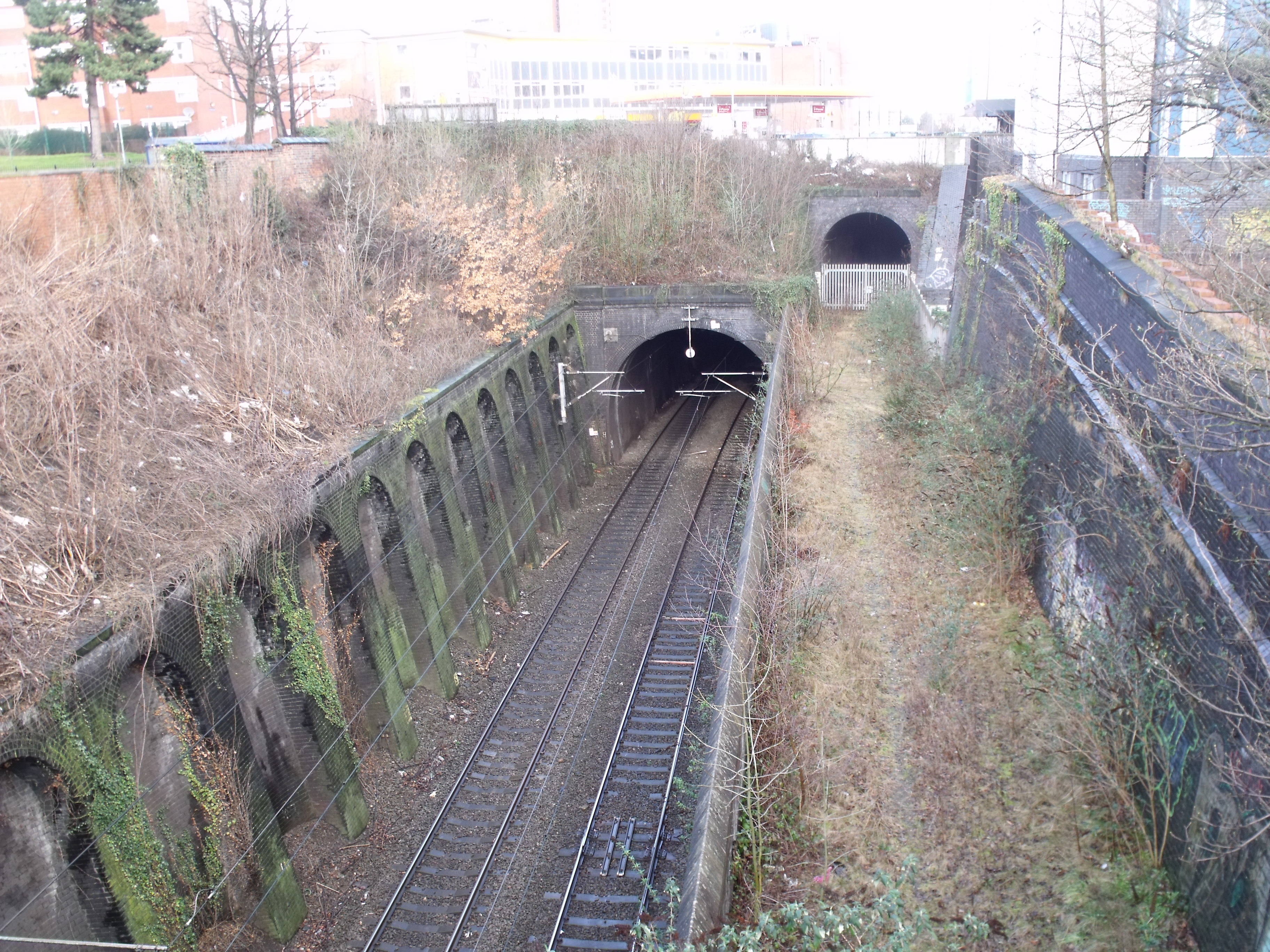 The other side of Islington Row Middleway. Then onto Bath Row. View of the Cross City Line in the direction of New Street Station from Islington Row Middleway. Also that disued railway line with blocked off tunnel on the right. The new building is IQ Five - new student accommodation. Seems a bit too close to the railway line. Shell petrol station on Bath Row.